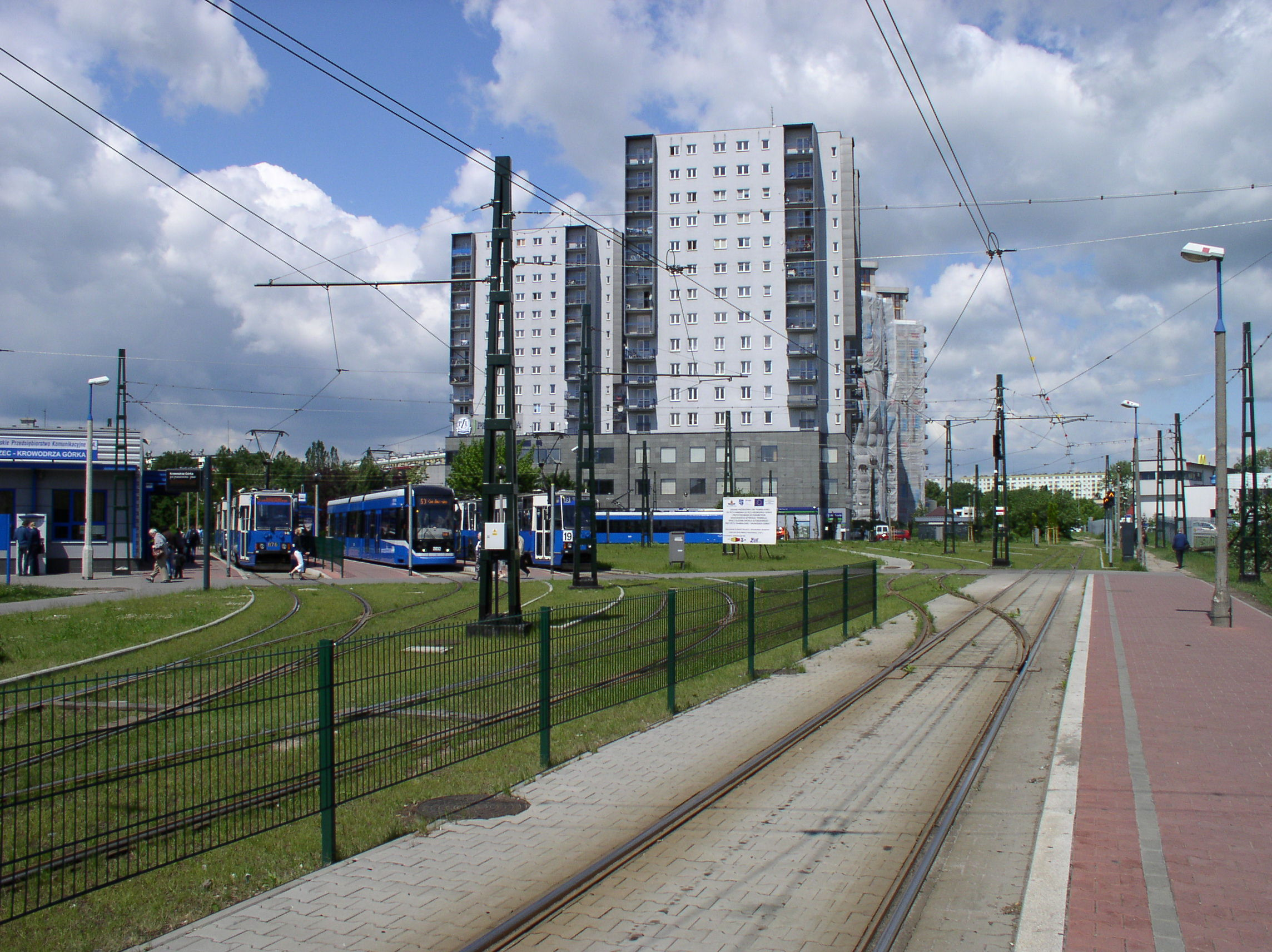 A tram ballon loop in Cracow, Krowodrza Górka, completely redesigned in 2007.